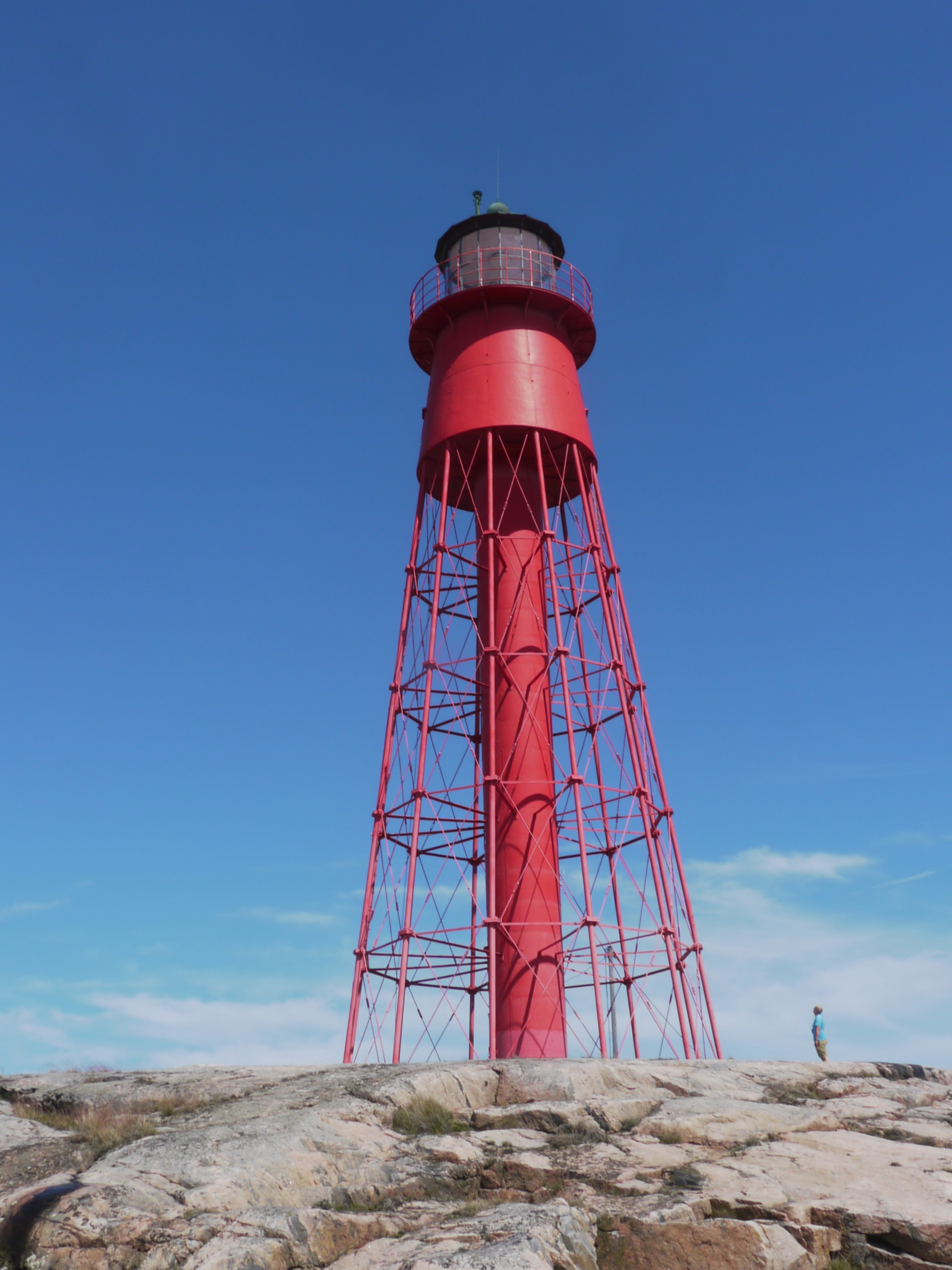 The lighthouse on Stångskär, a small skerry near the isle of Häradskär, Östergötland, Sweden